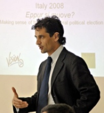 personal photo